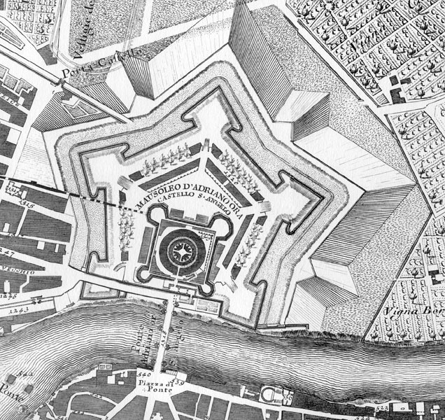 Edit 3 - a different tack.